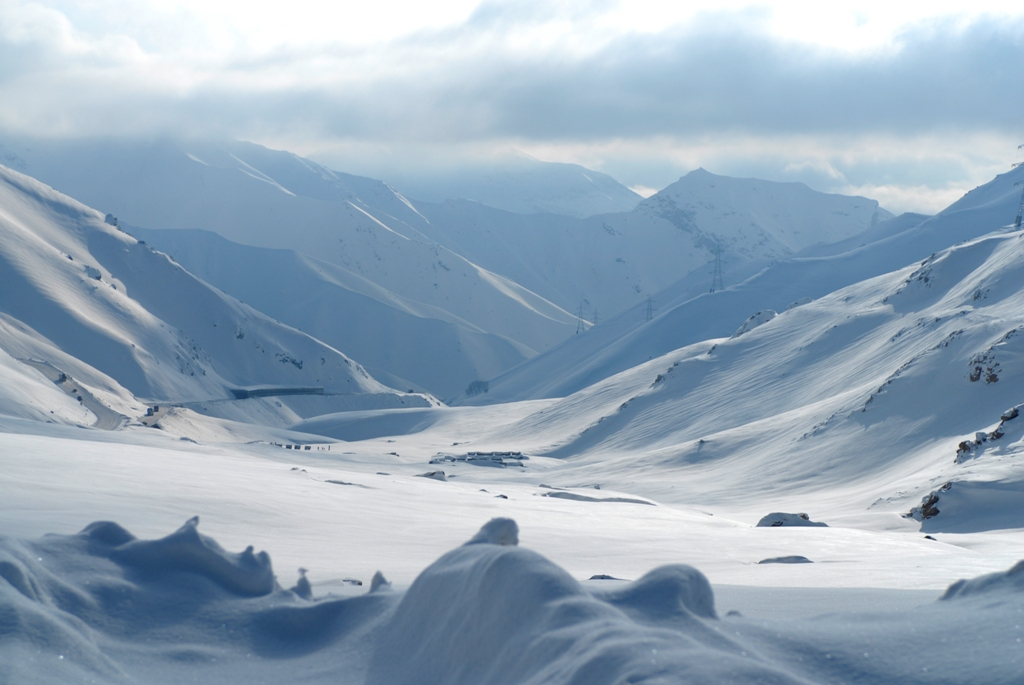 Snow covered mountains are shown just outside of Afghanistan's Salang tunnel in the Hindu Kush mountain range, Friday. (Photo ID: 148037)